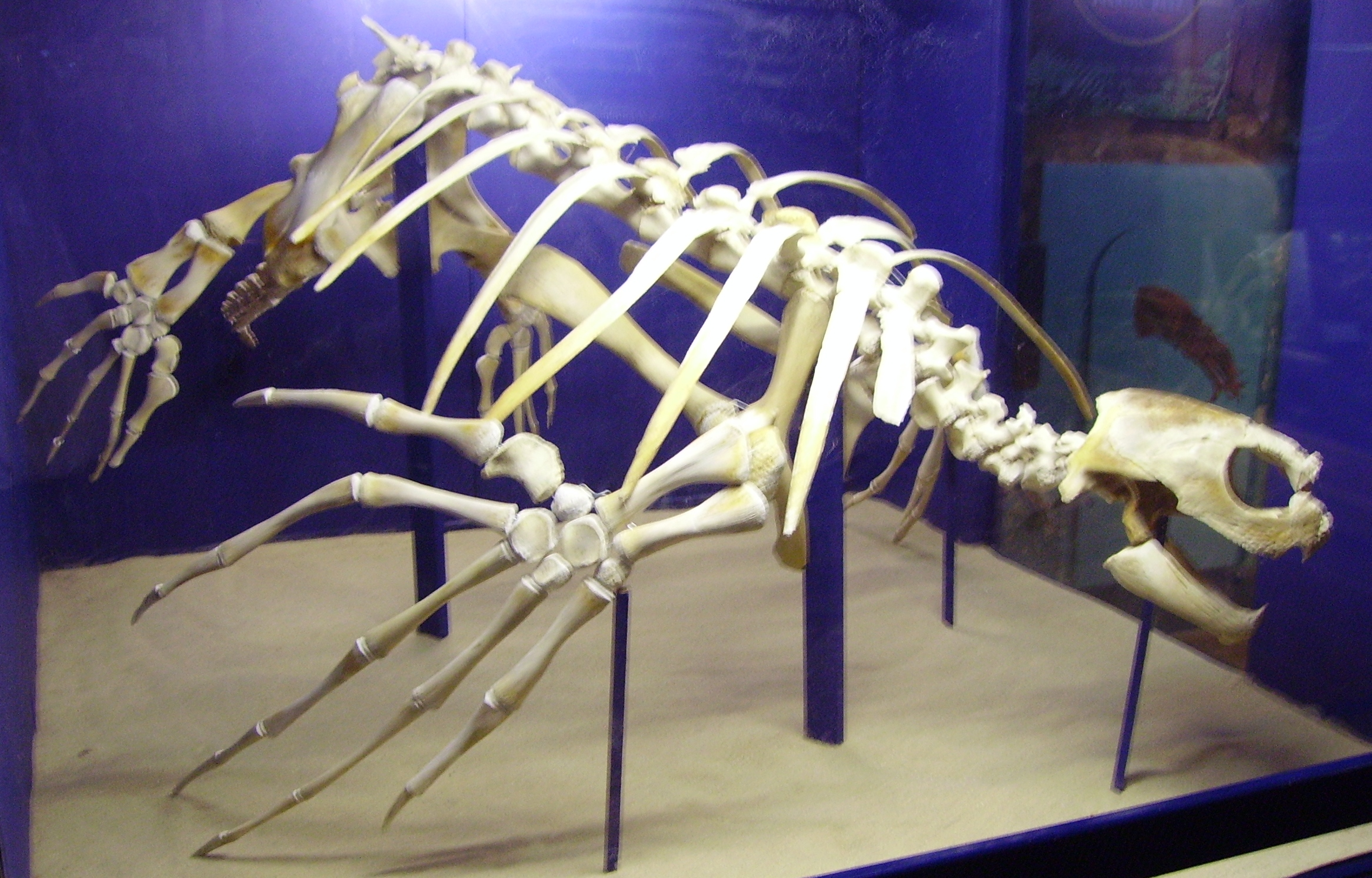 Skeleton from Dinosaurland, Lyme Regis, England